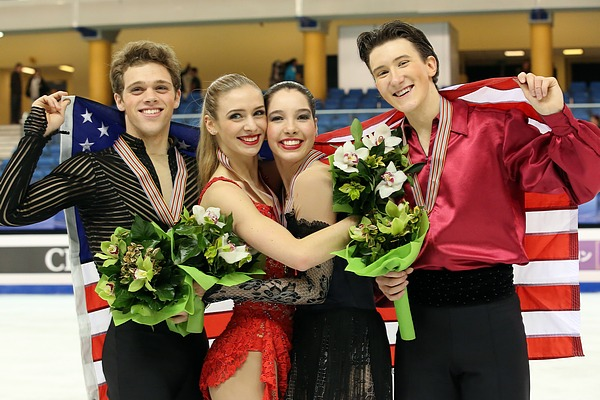 The Parsons, McNamara, Carpenter - 2016 Junior Worlds